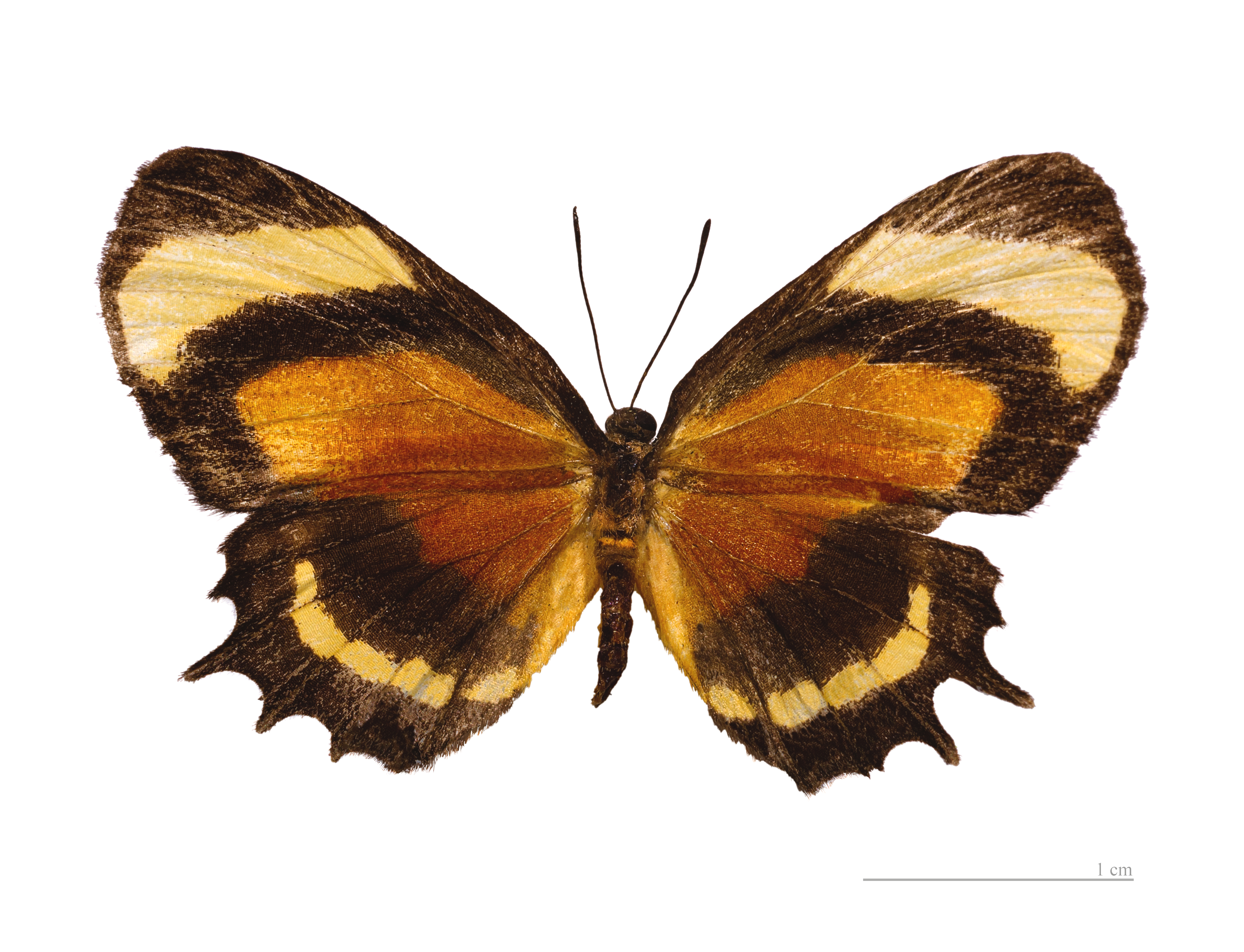 ♀ - Dorsal side Locality : Route de Kaw, Placer Trésor, French Guiana.